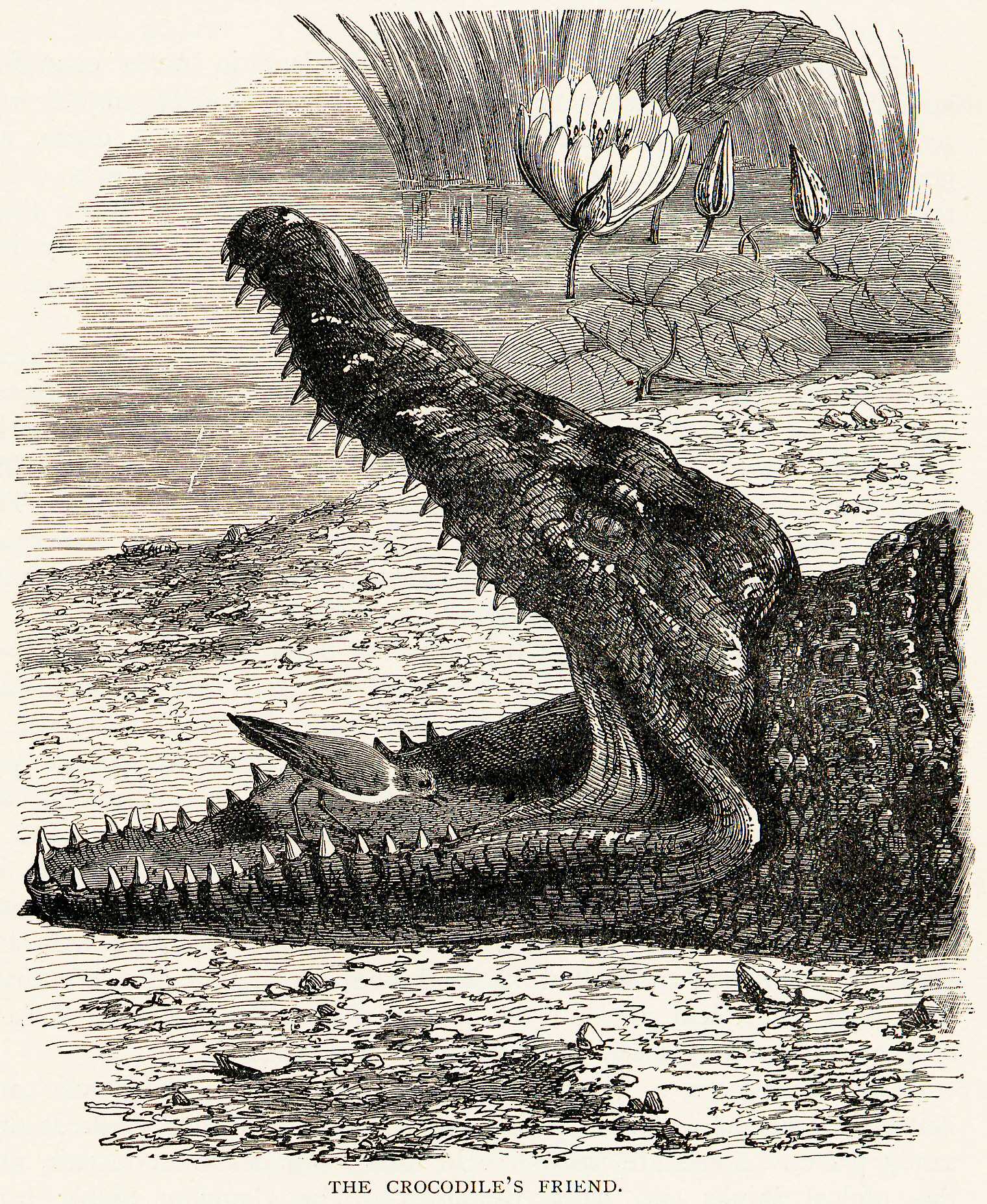 A small bird such as a plover or sandpiper, representing the Trochilus described by Herodotus, eats leeches from the gaping open mouth of a Nile crocodile in an early example of Cleaning Symbiosis.